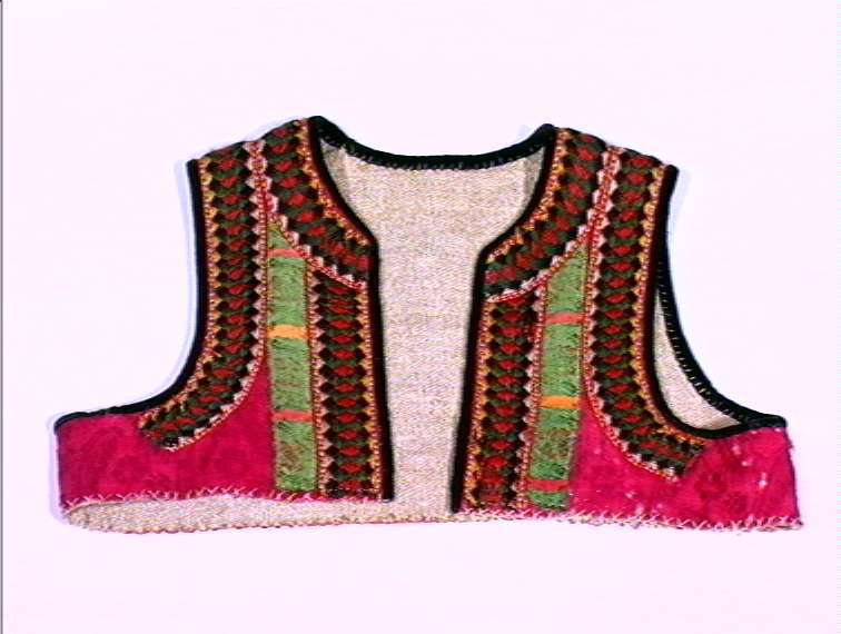 Bodice from Torpo, Ål, Hallingdal, Norway.